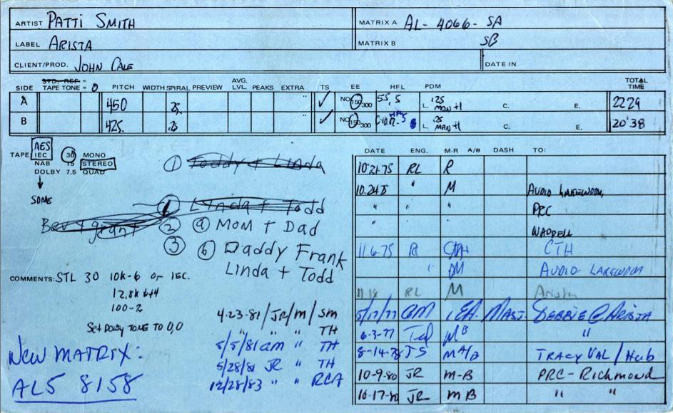 Cutting card from Patti Smith's album, Horses